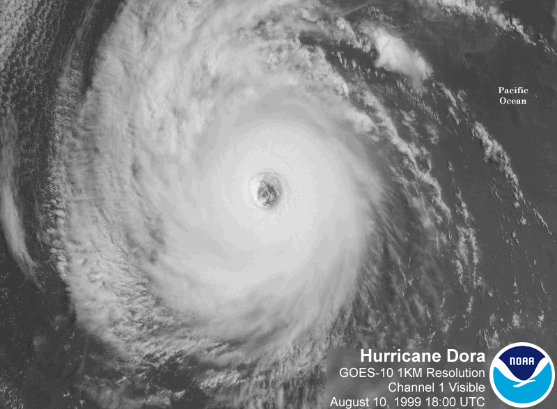 Hurricane Dora, the strongest storm of the en:1999 Pacific hurricane season